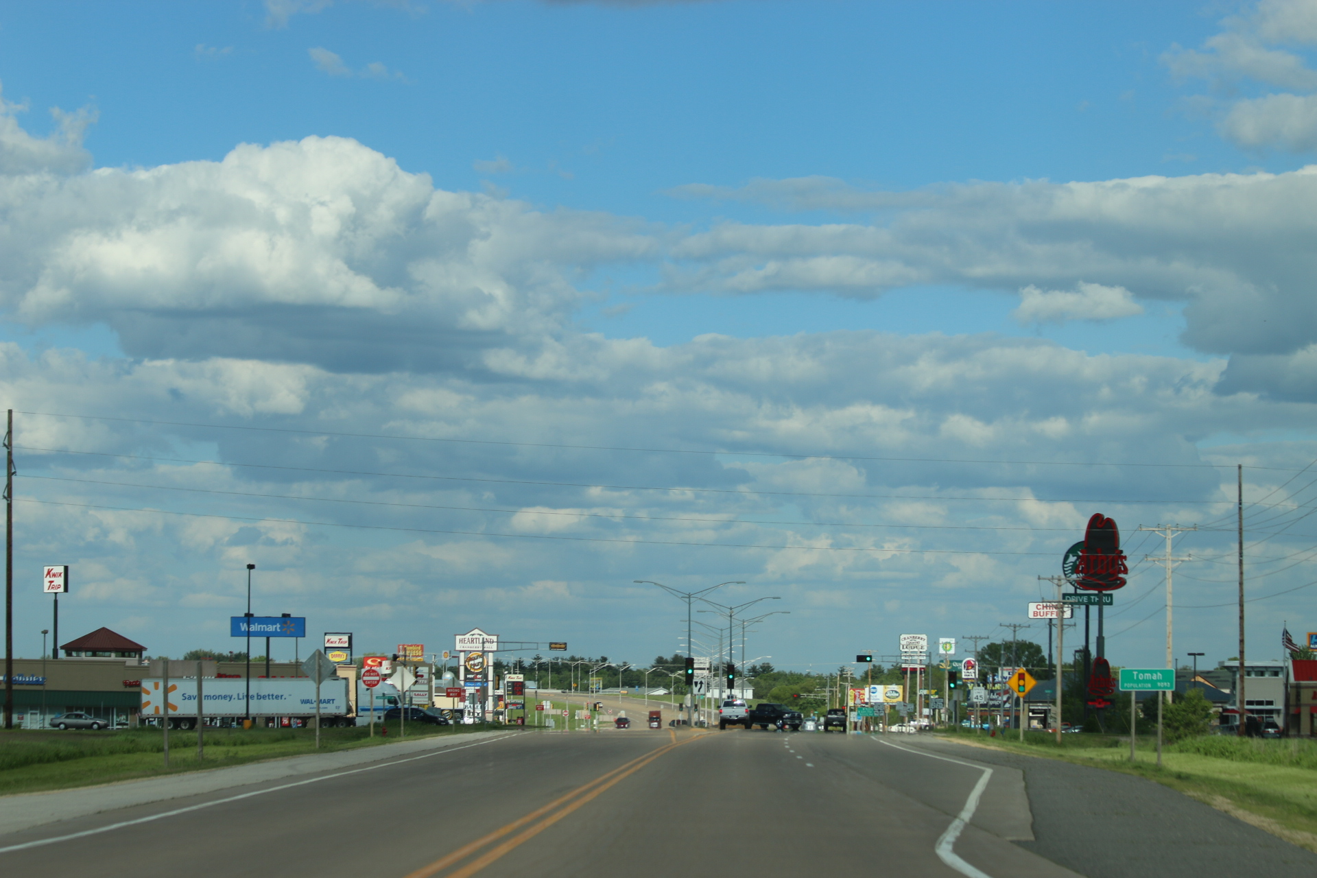 Looking east at the sign for Tomah, Wisconsin on WIS21.